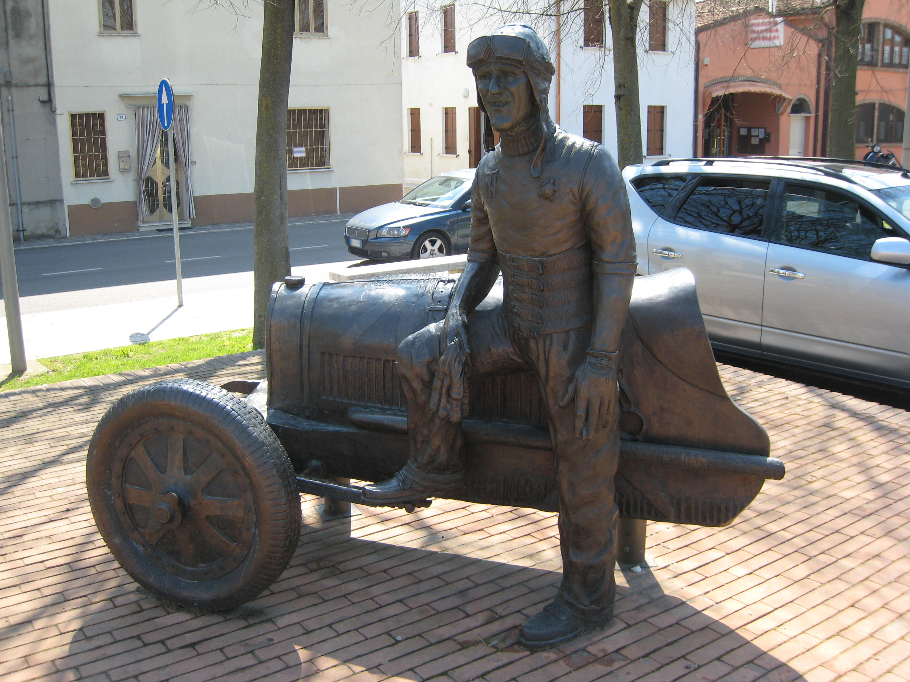 Tazio Nuvolari - Monument in Castel D'Ario - Italy